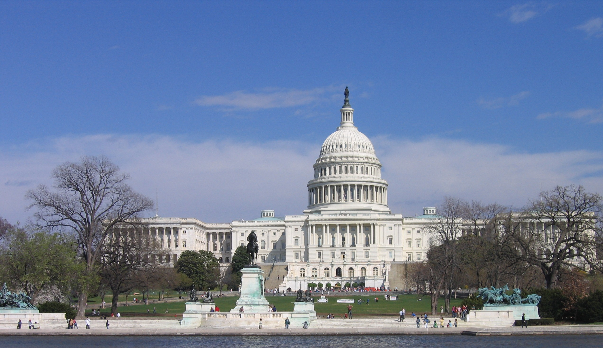 The Capitol, Washington D.C., USA.